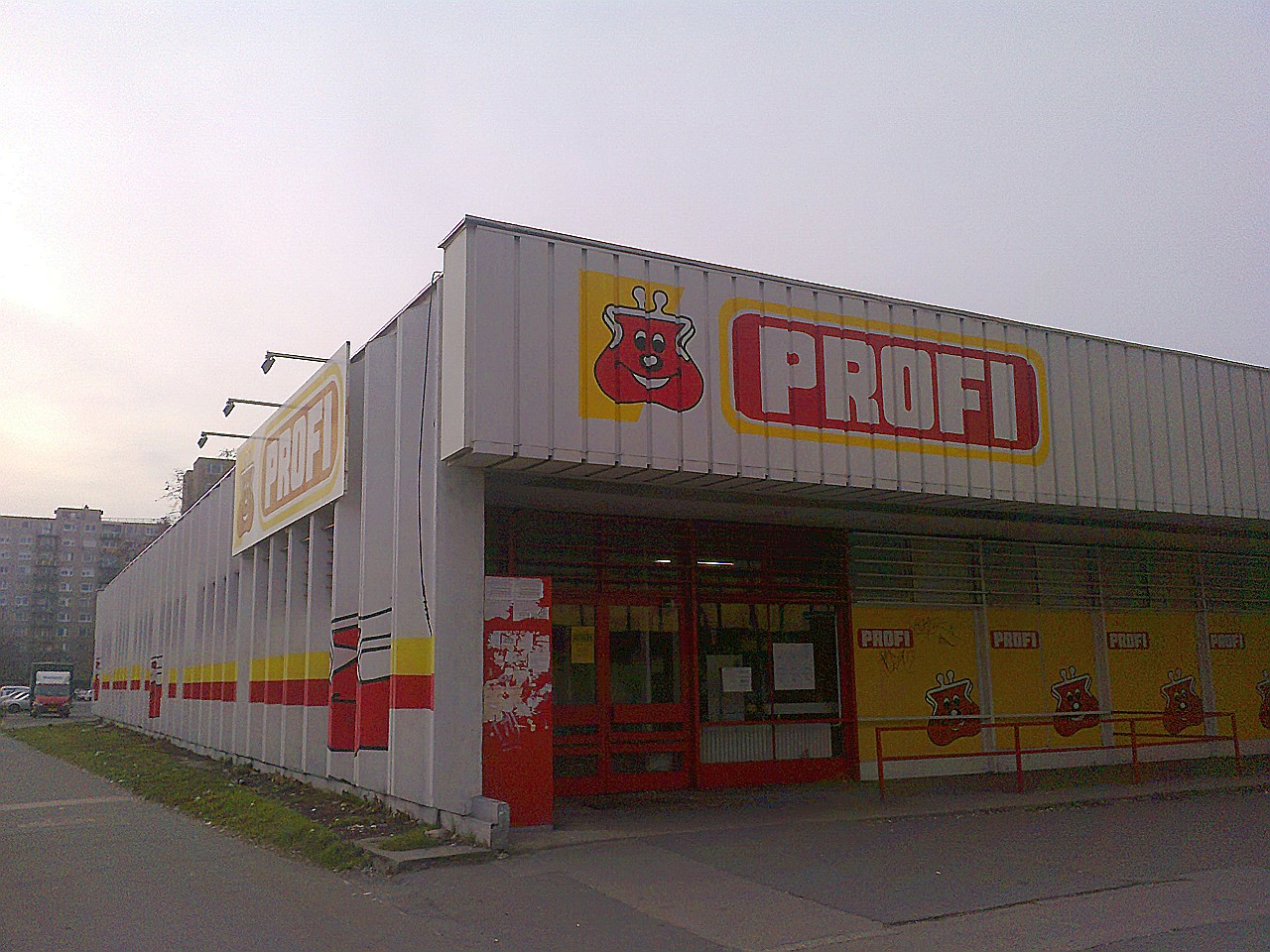 Closed Profi discount store in 2013 (Budapest, Tél utca)